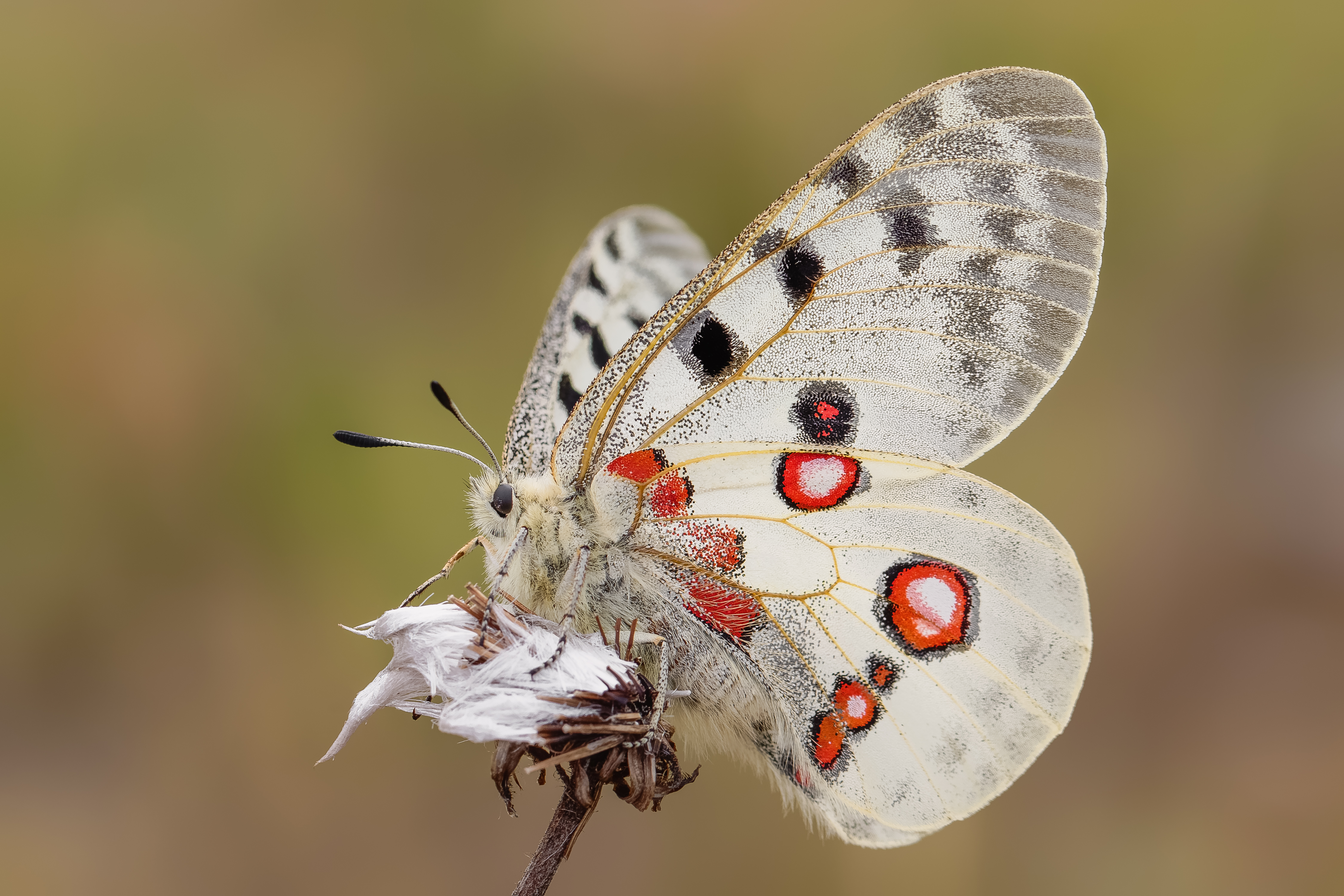 An Apollo (Parnassius apollo) in Altmühl Valley Nature Park